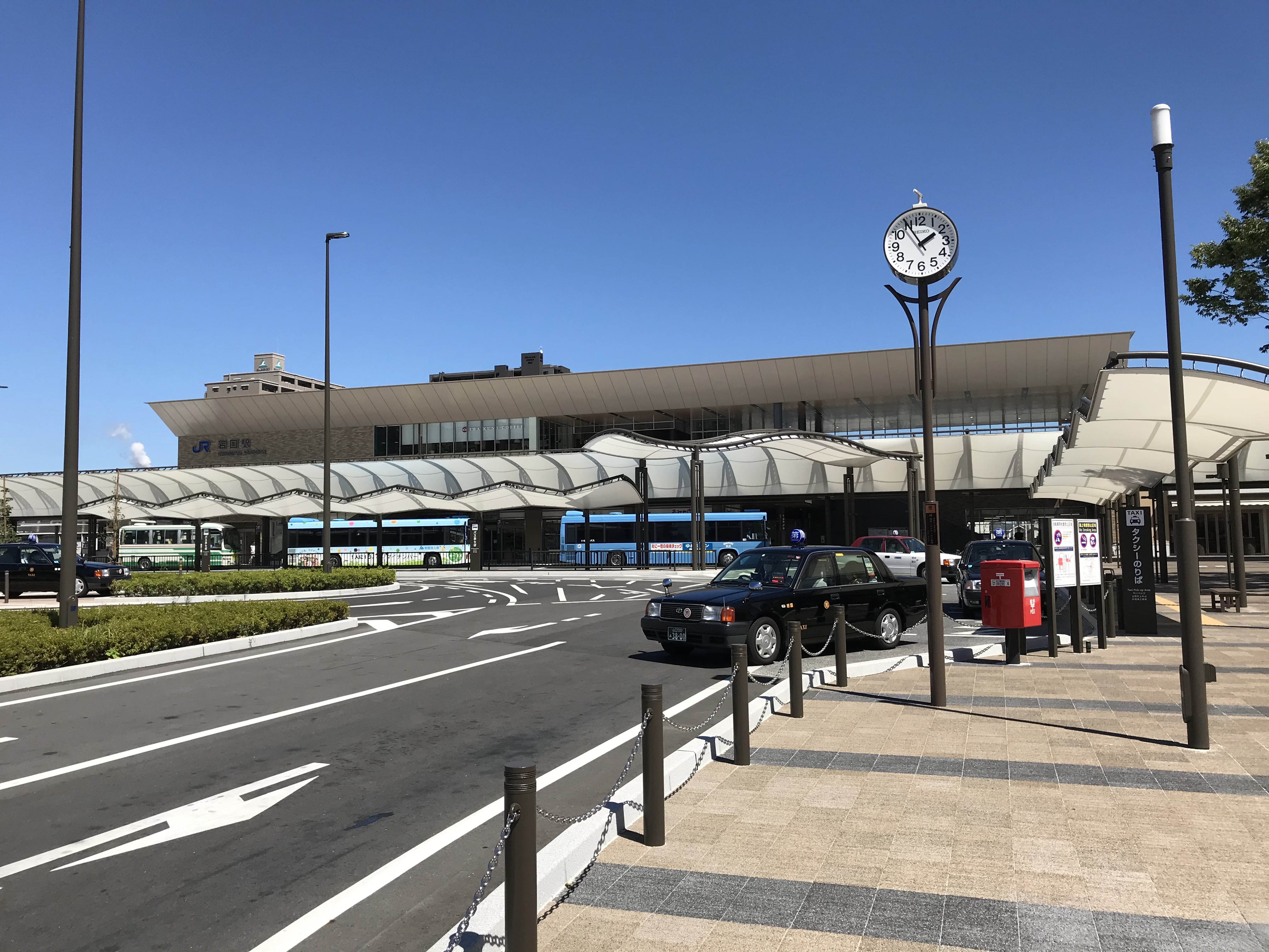 Iwakuni station west entrance building built in 2017